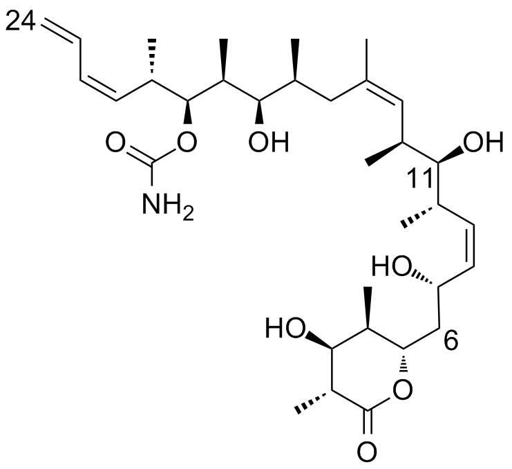 structure of discodermolide.png